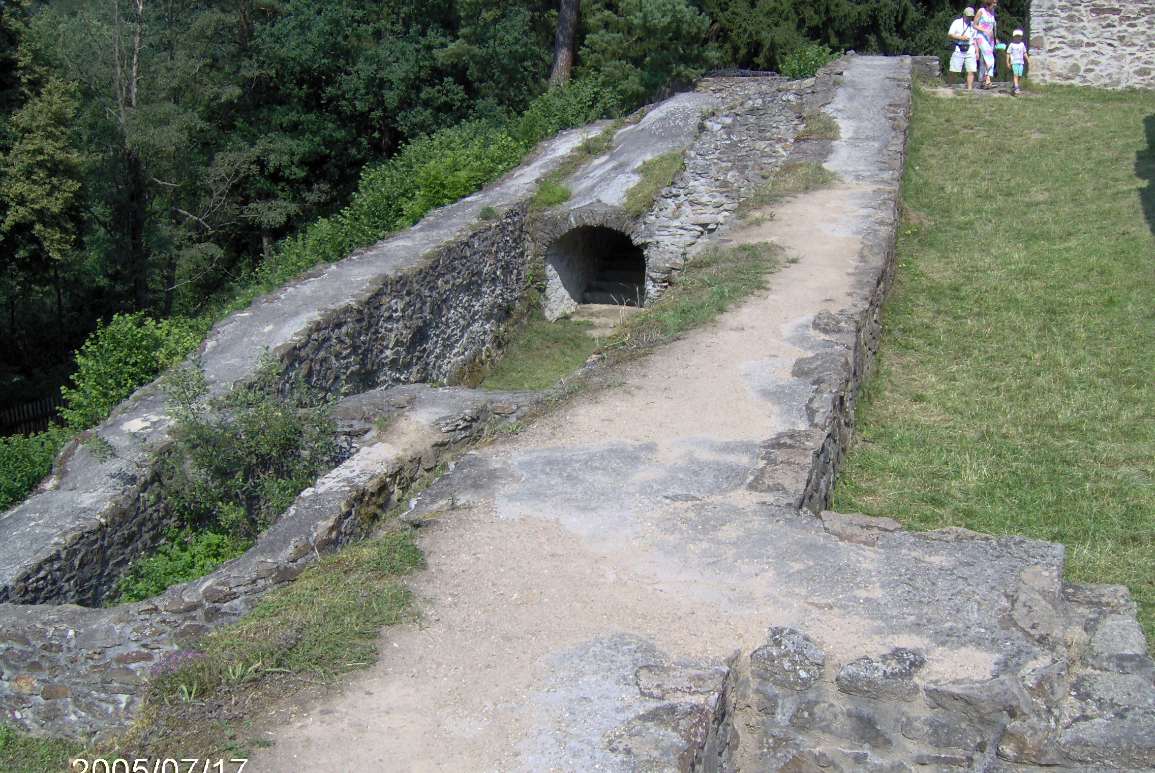 Kozí Hrádek castle ruin near Tábor, Czech Republic.